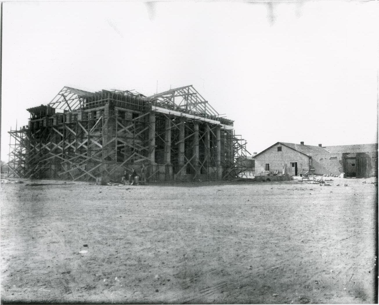 View of the east and north faces of the present Jeff Davis County Courthouse, Fort Davis, Texas during construction between 1910-1911. To the right is the original courthouse, no longer extant, which also served as the original Presidio County Courthouse.